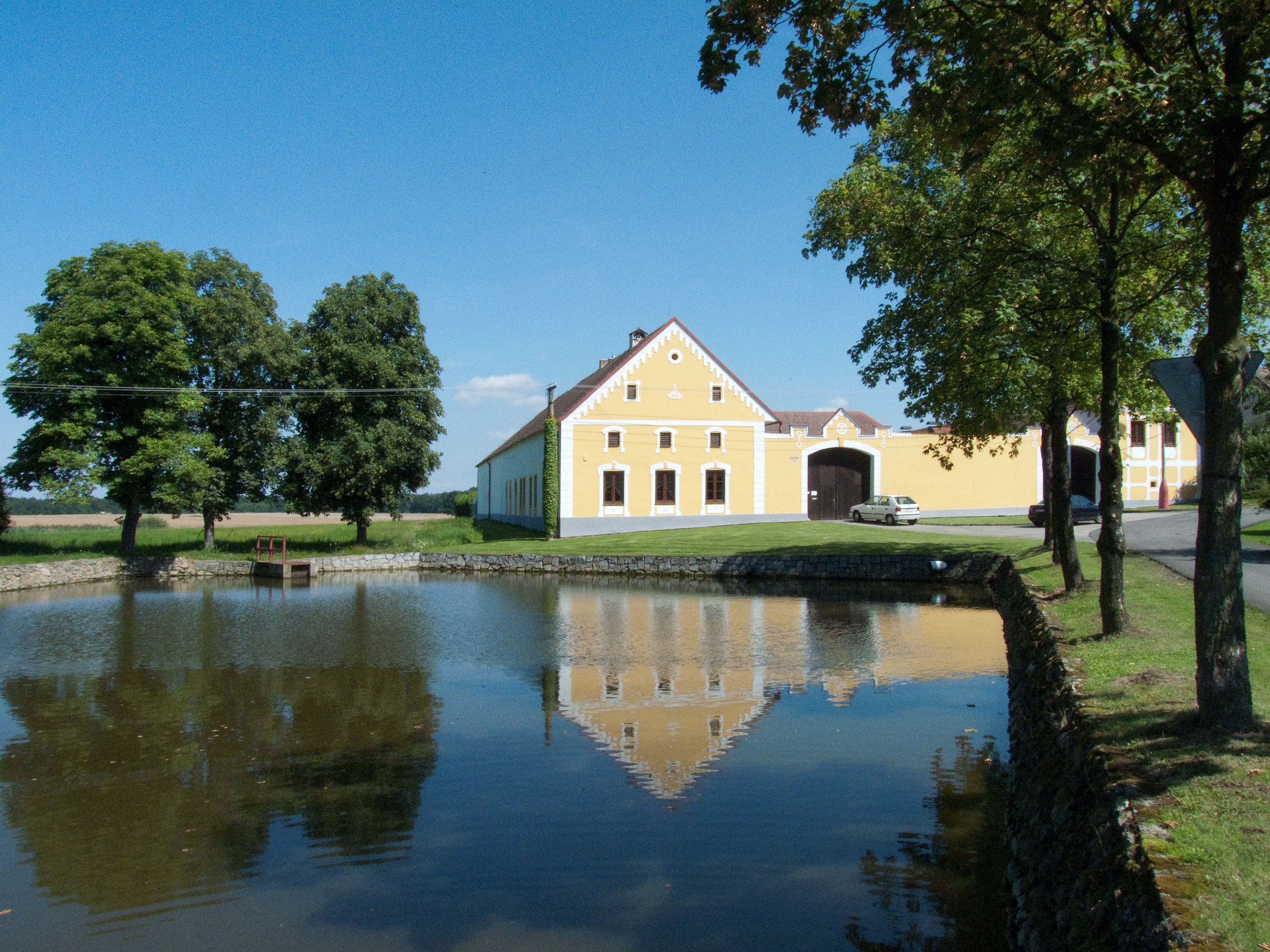 Cottage No 13 in Břehov, České Budějovice district,Czech Republic as seen from across the village pond